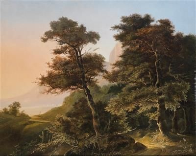 Landscape